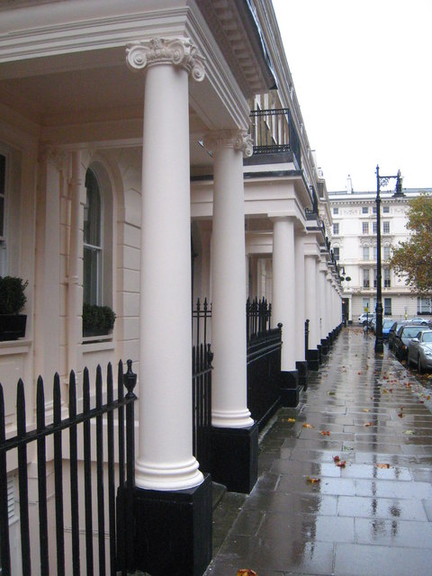 Houses on the south side of Eaton Square One of the most desirable addresses in London, there's probably £100,000,000 worth of property in this photo.